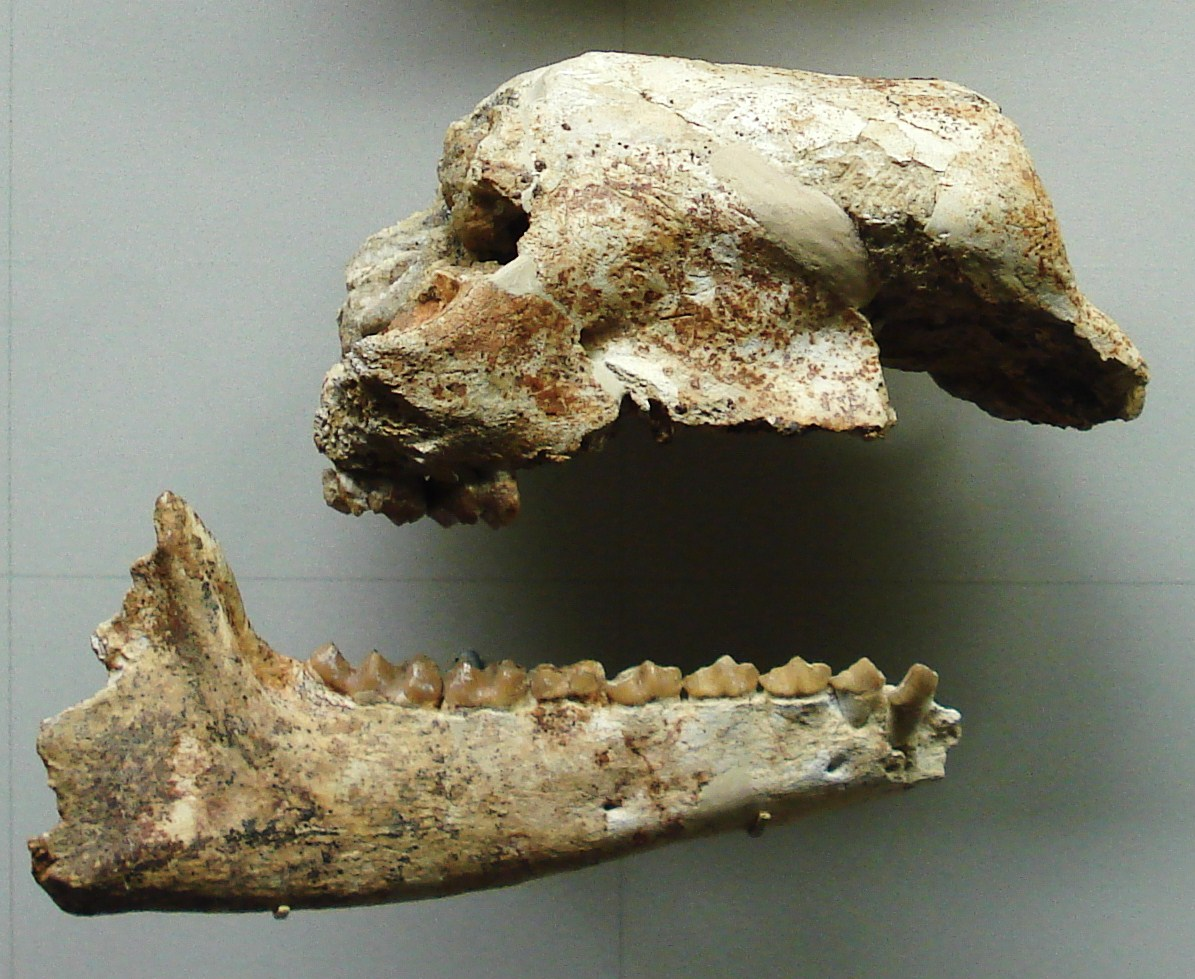 fossil of diplobune